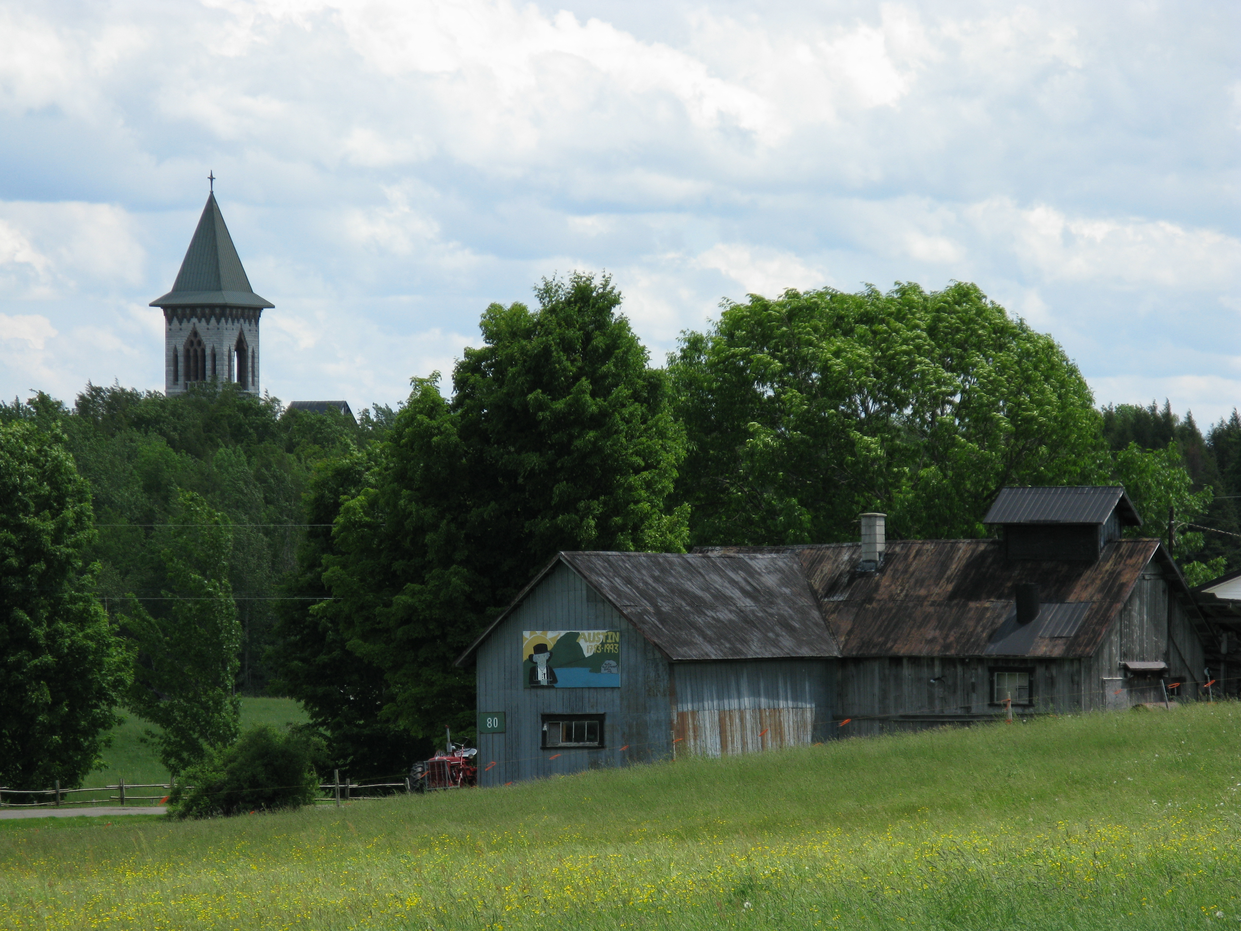 Saint-Benoît-du-Lac abbey and farm.